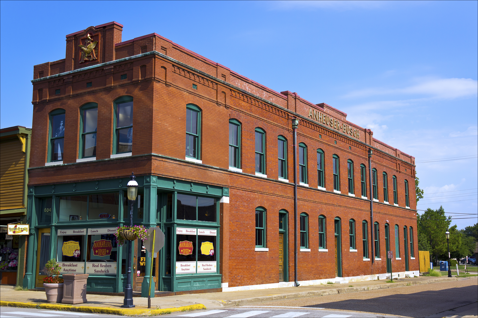 From flickr: The Anheuser - Busch Building in downtown Van Buren. Now home to the Boom-A-Rang Diner.